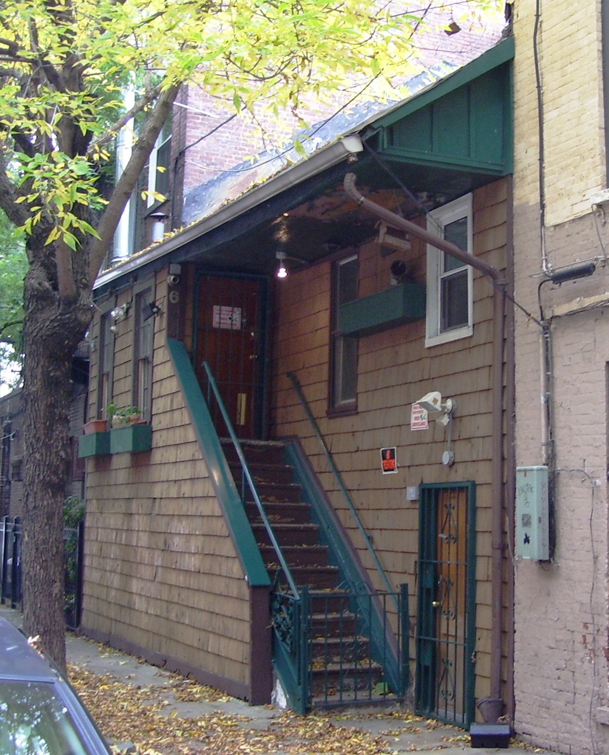 392-393 West Street, also known as 6 Weehawken Street, between Christopher Street and West 10th Street, in the West Village neighborhood of Manhattan, New York City, was built in 1834 for the City of New York as part of the Market House of the Greenwich Market, known informally as the Weehawken Market, which was built on land which had formerly been Newgate State Prison. It was altered in 1848, after the city had closed the market in 1846, and the property was divided into lots (this building being on lot #5). The building was subsequently used primarily as a bar and pool hall, but has also been a photographer's studio and an adult video store, among other things. The building is located within the Weehawken Street Historic District. (Source: "NYCLPC Weehawken Street Historic District Designation Report") This picture shows the Weehawken Street facade from the north.